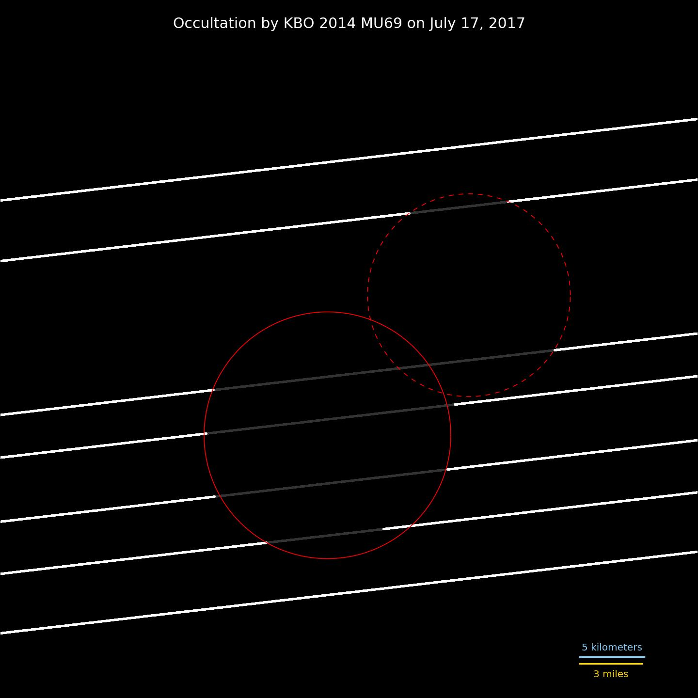 MU69's shadow traces its most likely binary shape, as seen in the stellar occultation that occurred over Argentina on July 17, 2017. The best-fit red circles reveal MU69's possible doubled-lobed – or binary – nature.